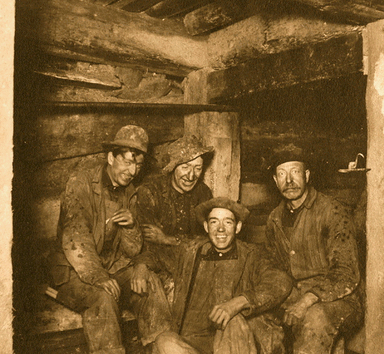 Garbutt Mine: four men underground at the Garbutt Mine. Note the candle holder stuck in the mine timber on the right. The Garbutt Mine (F. C. Garbutt Mine) was located east of Leadville in Lake County, Colorado and was a good gold producer around 1895. F.C. Garbutt was a smelter superintendent in Leadville around 1879. Source: National Mining Hall of Fame and Museum. Leadville, CO. Photo Date: [Colorado : s.n., between 1895 and 1915]. URL: Image courtesy Colorado School of Mines